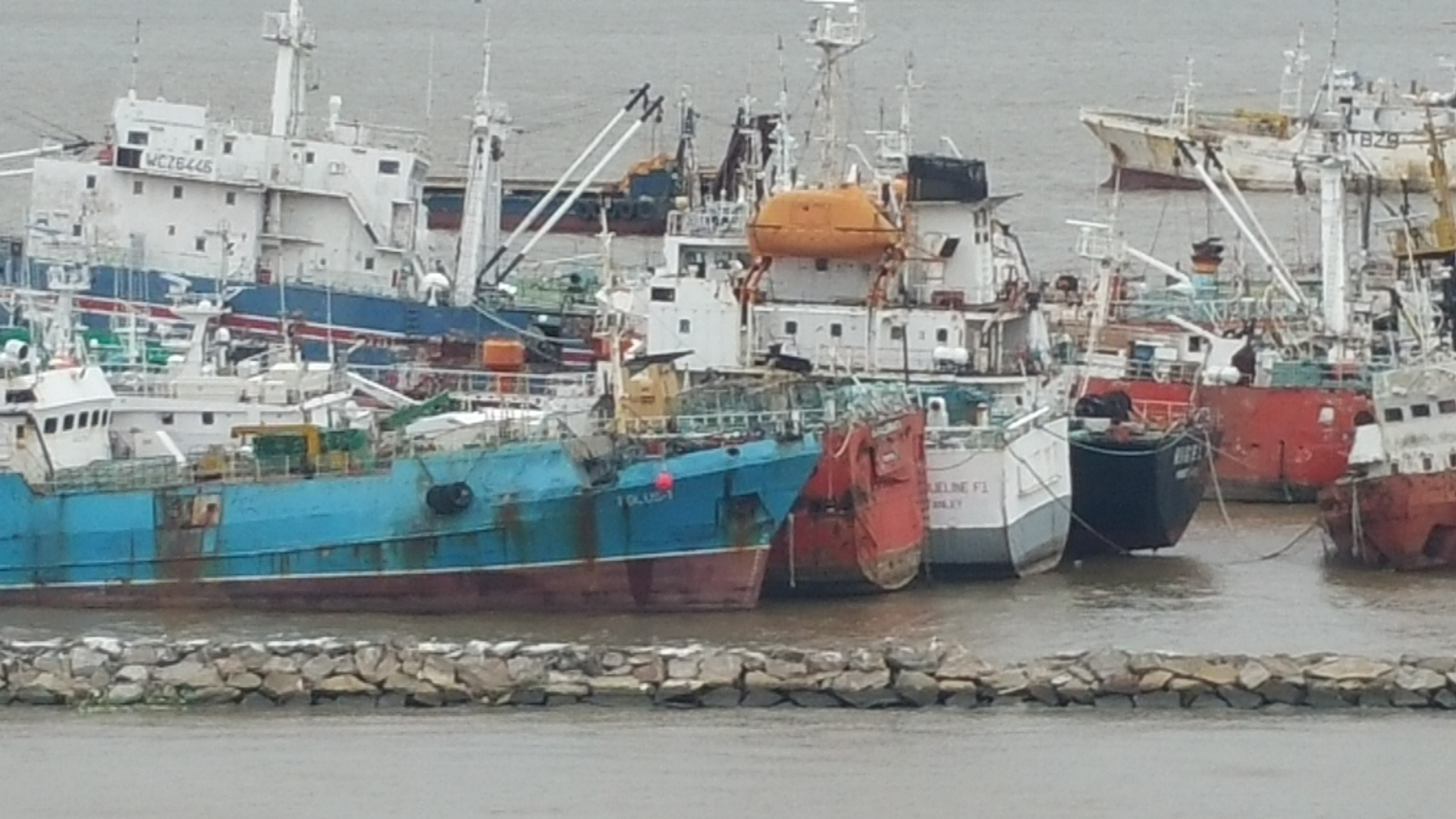 Shipwrecks in harbour of Montevideo